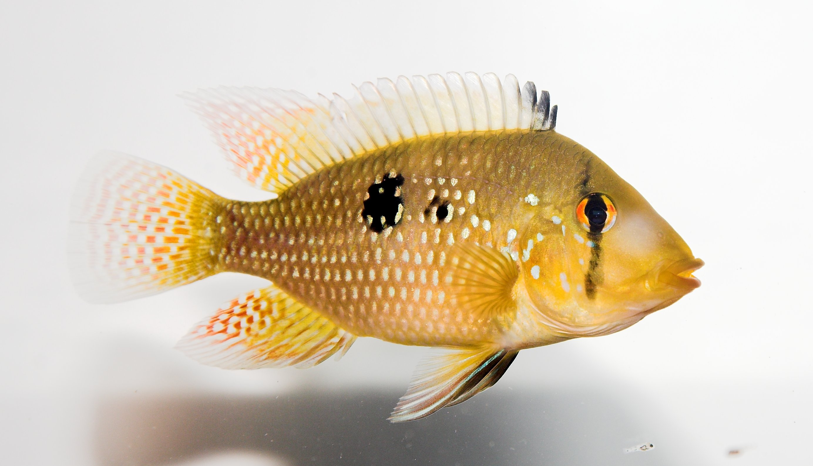 Geophagus brasiliensis - male